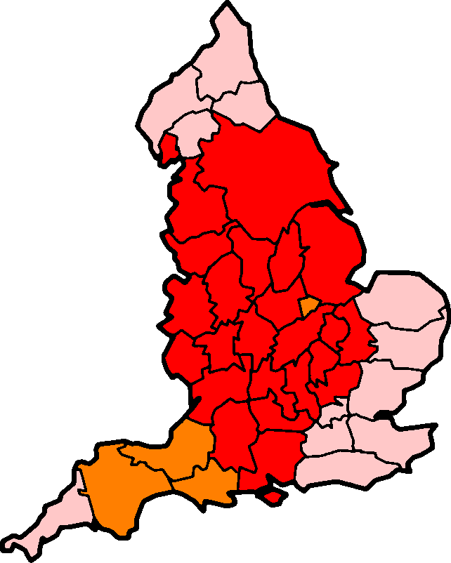 Historic counties of England, highlighting those with names ending in "-shire"